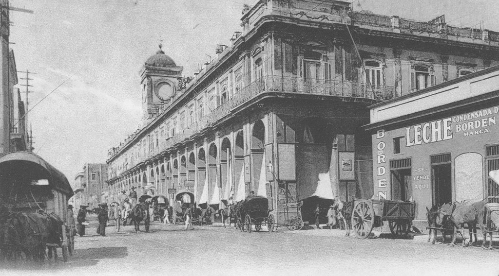 Plaza-del-vapor_2. Havana, Cuba.